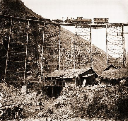 First train on Baizhai Bridge, 30 March 1908